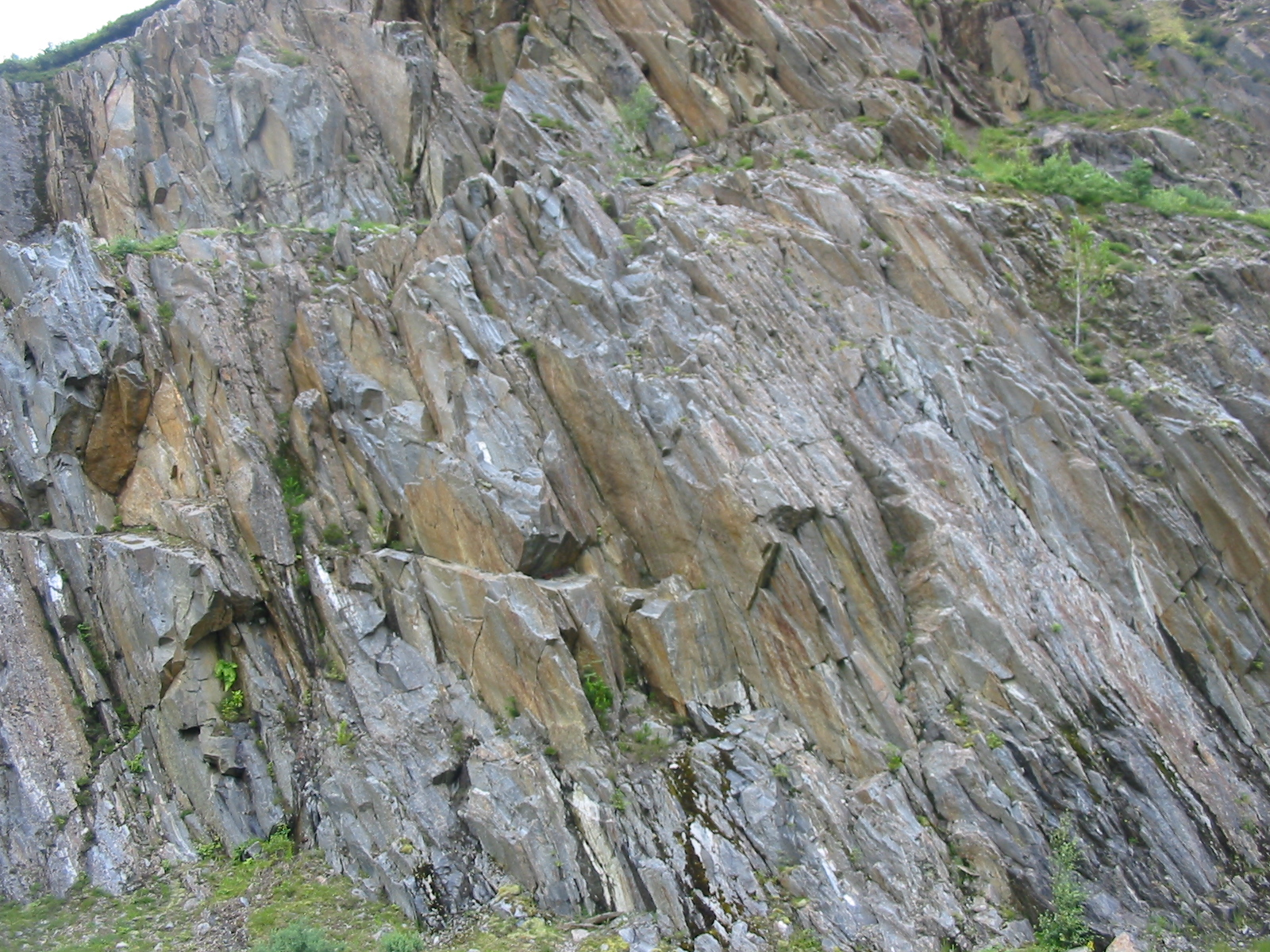 Roadside outcrop of schist in Scotland.